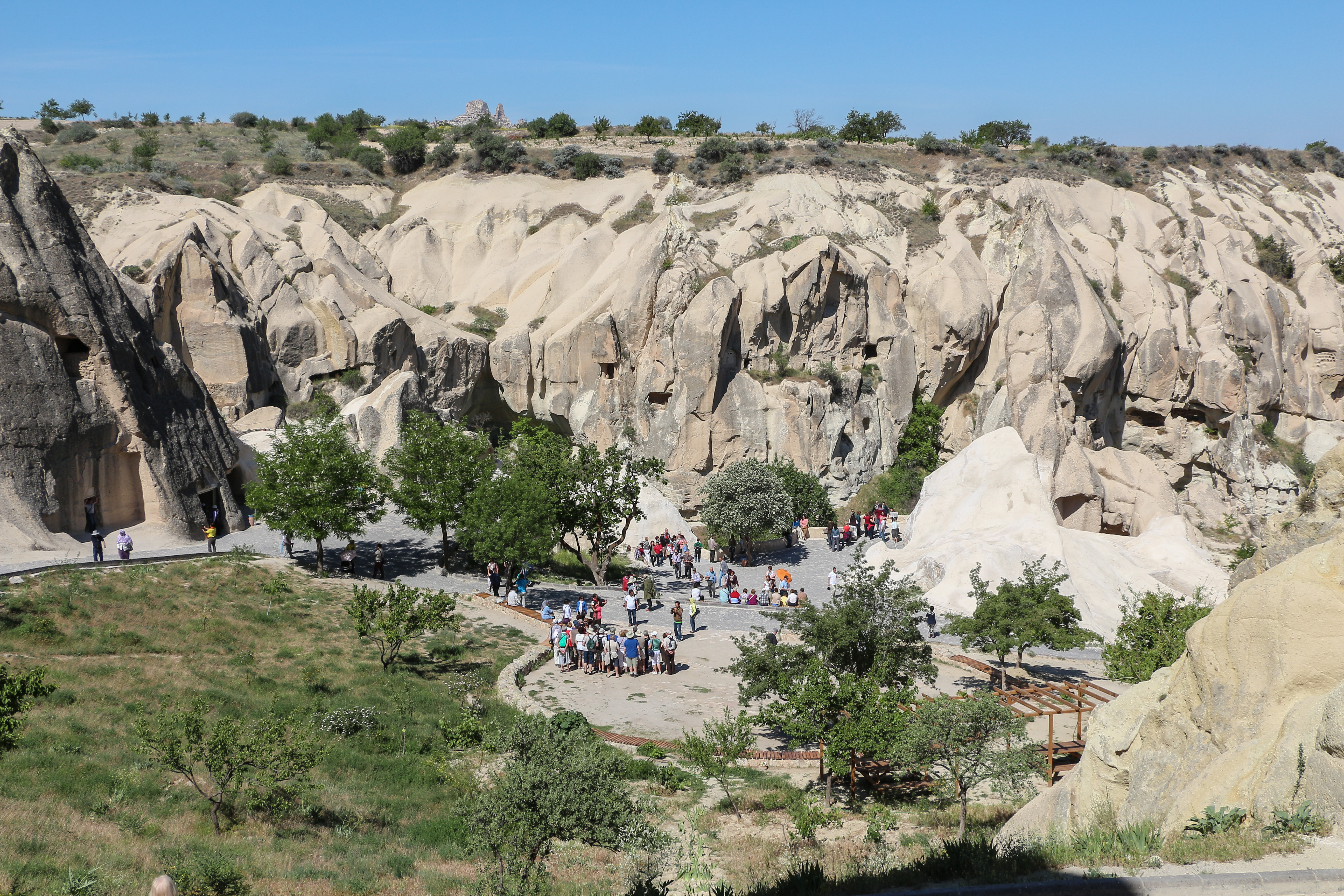 View of Göreme Open Air Museum, Turkey